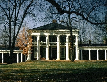 University of Virginia Lawn, Pavilion V